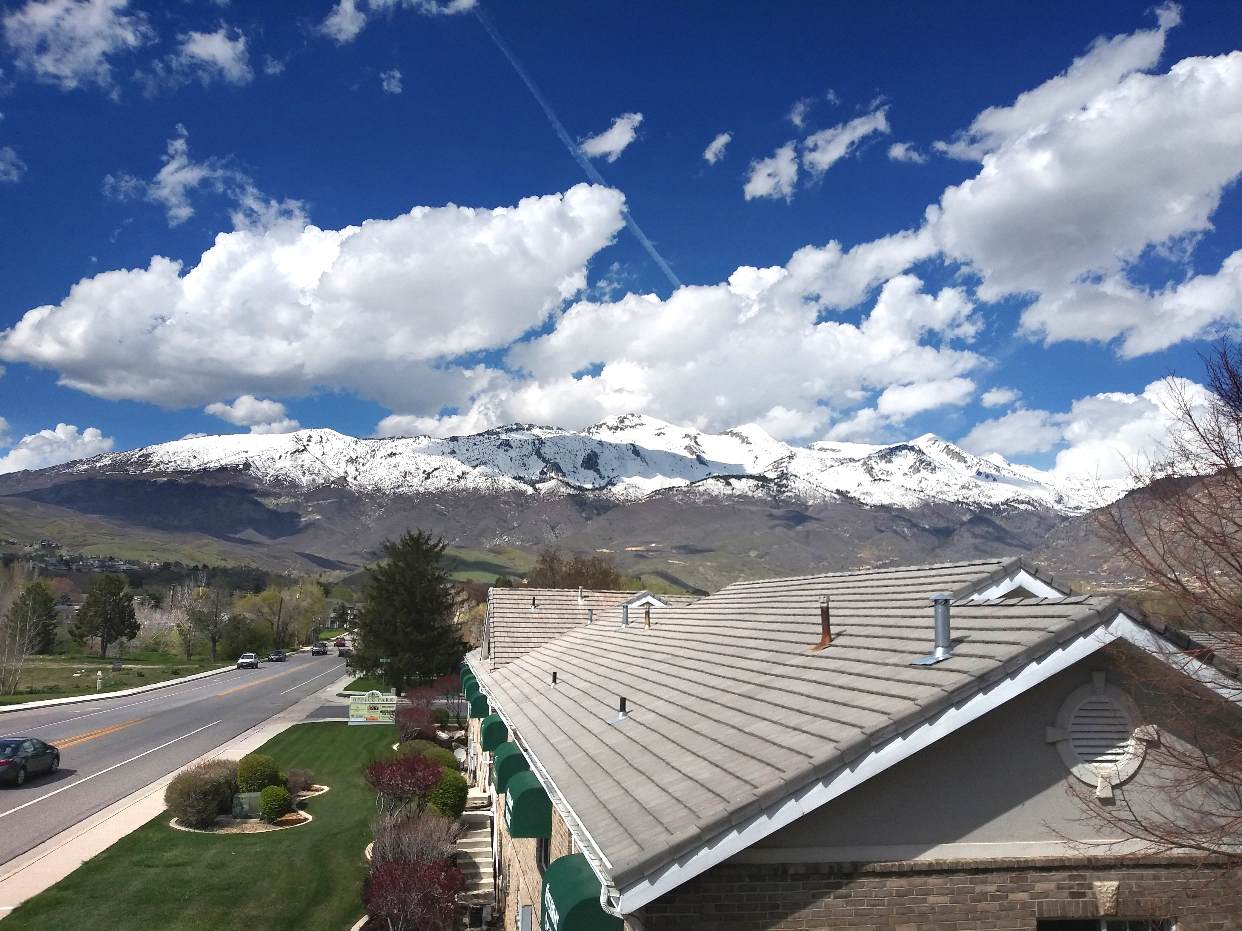 View of Lone Peak from downtown Alpine, UT